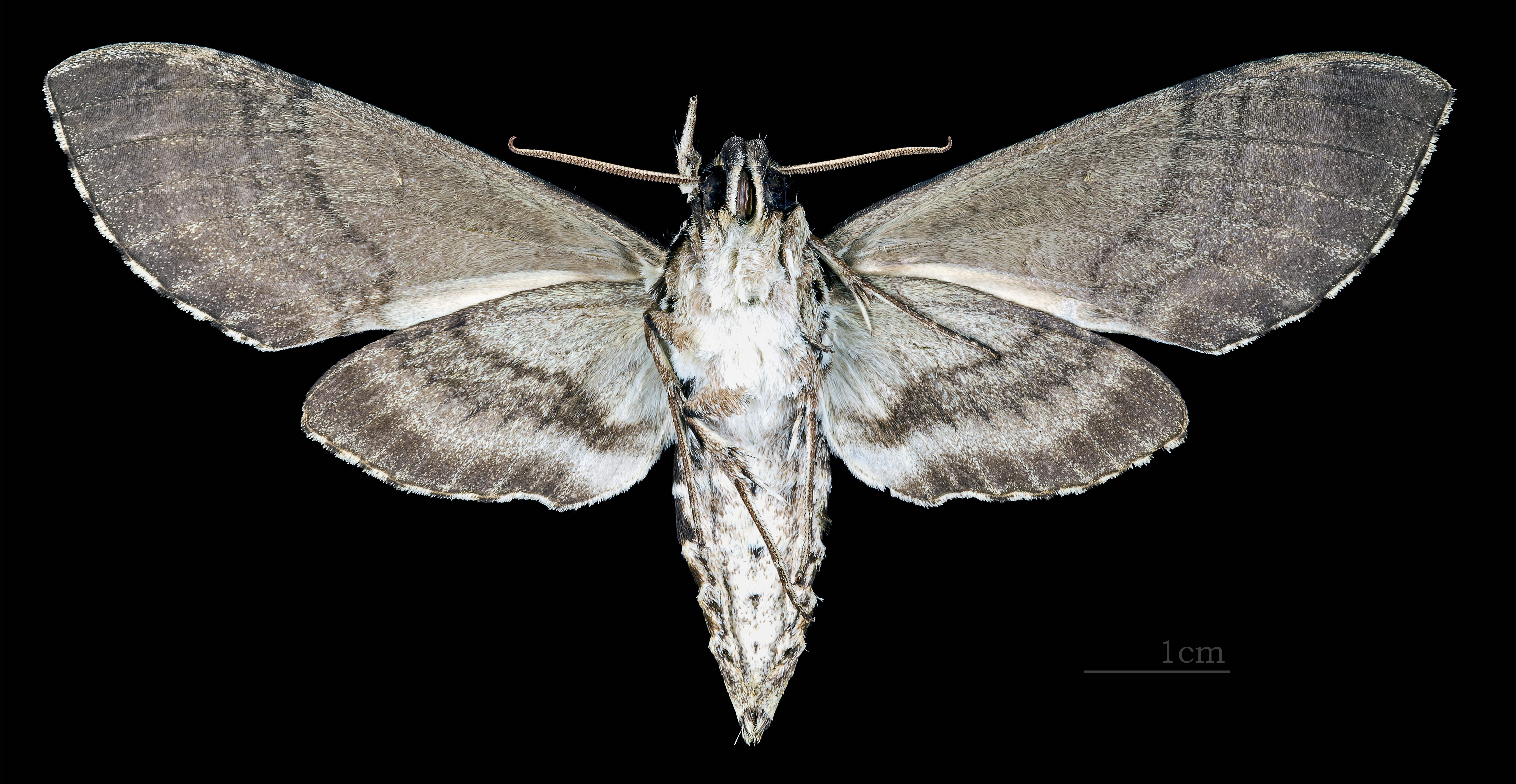 Manduca wellingi - △ Ventral side